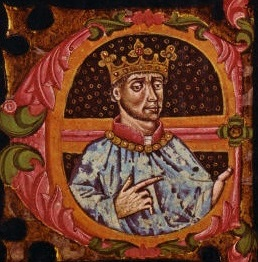 A contemporary Medieval manuscript depiction of Henry IV "The Impotent" of Castile. Image decorating a parchment Royal Privilege confirming the estate of Juan Pacheco (Marquis of Villena) and his wife Juana Portocarrero. Signed at Almazán on Jan. 29th, 1463